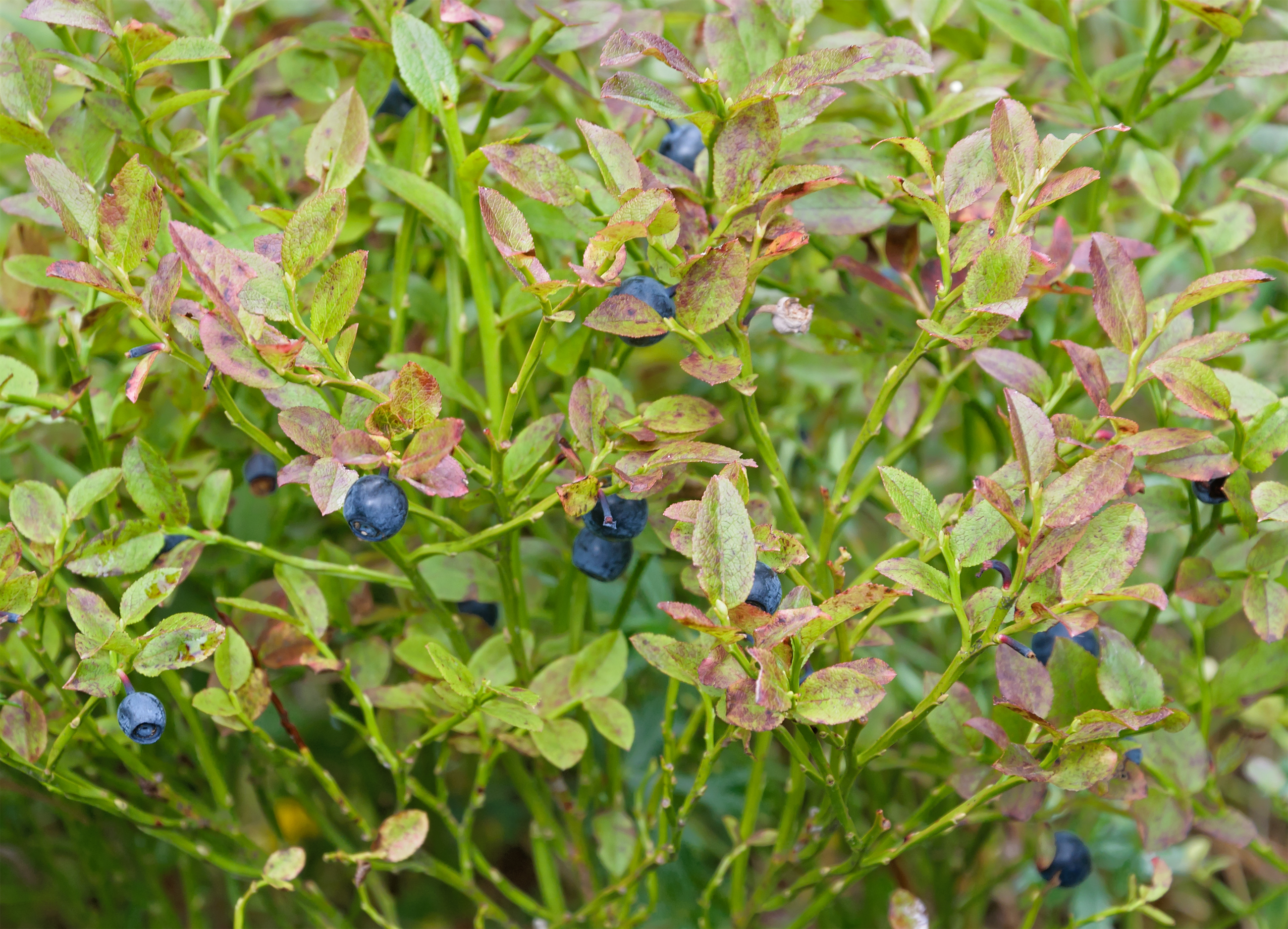 Bilberry (Vaccinium myrtillus), Glières Plateau, Haute-Savoie, France.